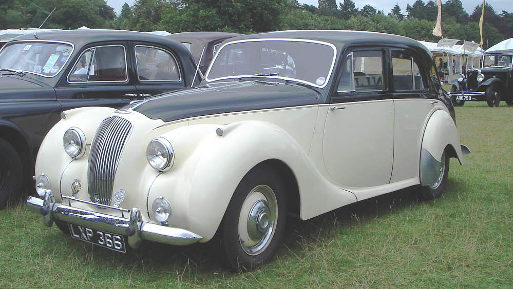 Lagonda 2.6 litre saloon. 1st reg 10 Feb 1951, 2586cc Photographed by myself at Tatton Park, Cheshire, UK on 20 August 2006. According to the UK tax gatherers' database, this car was manufactured 1951 and first registered 10 February 1951. It has an engine capacity of 2586 cc. They give the colour as 'cream'.